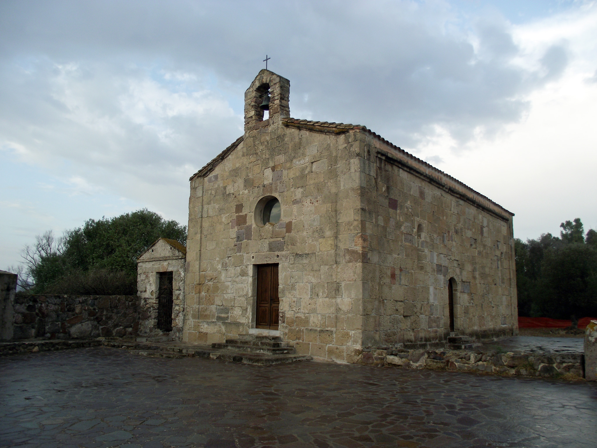 The Santa Maria church in Palmas Vecchio (San Giovanni Suergiu, Sardinia, Italy), 11th century.